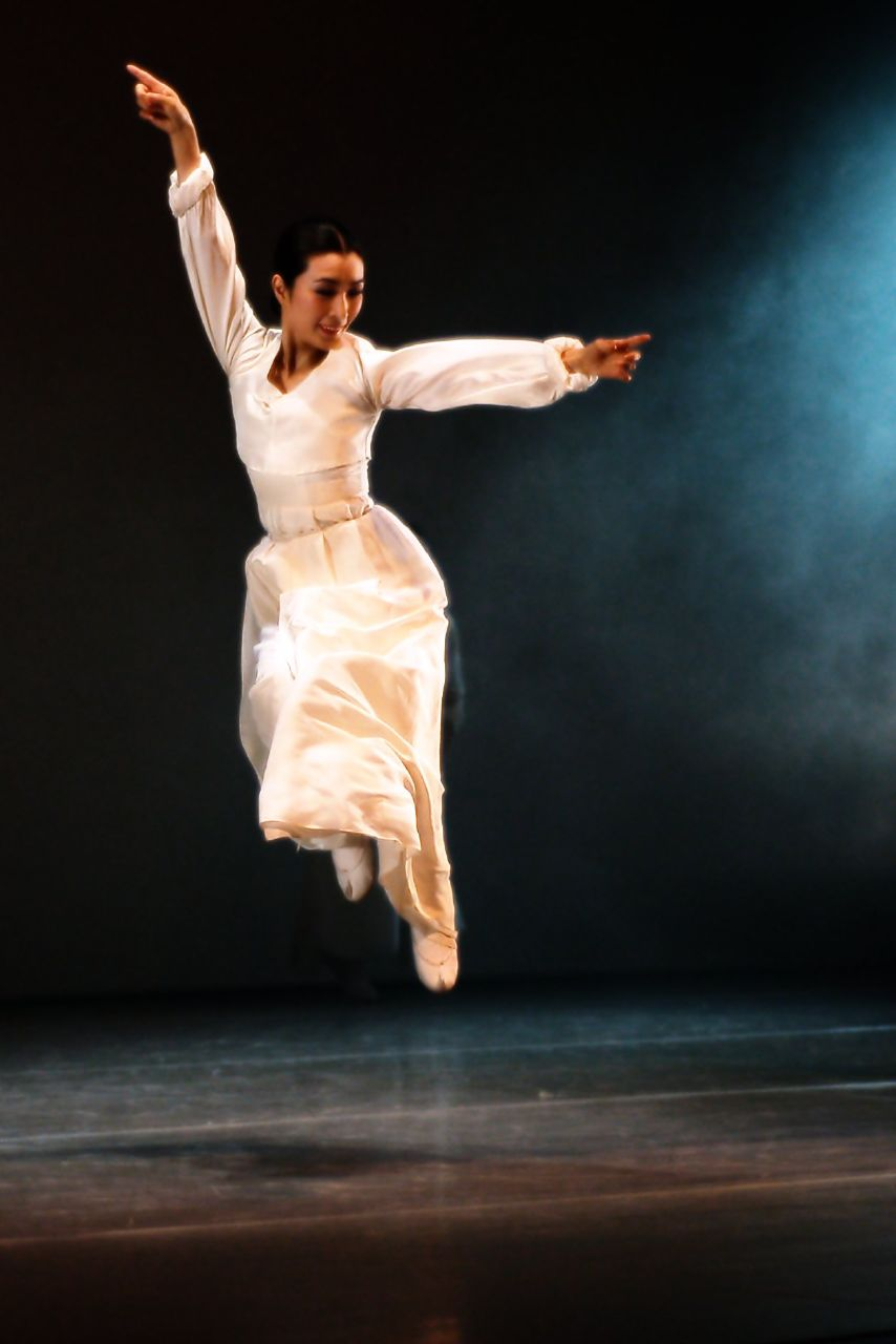 A performance of a Korean traditional dance.